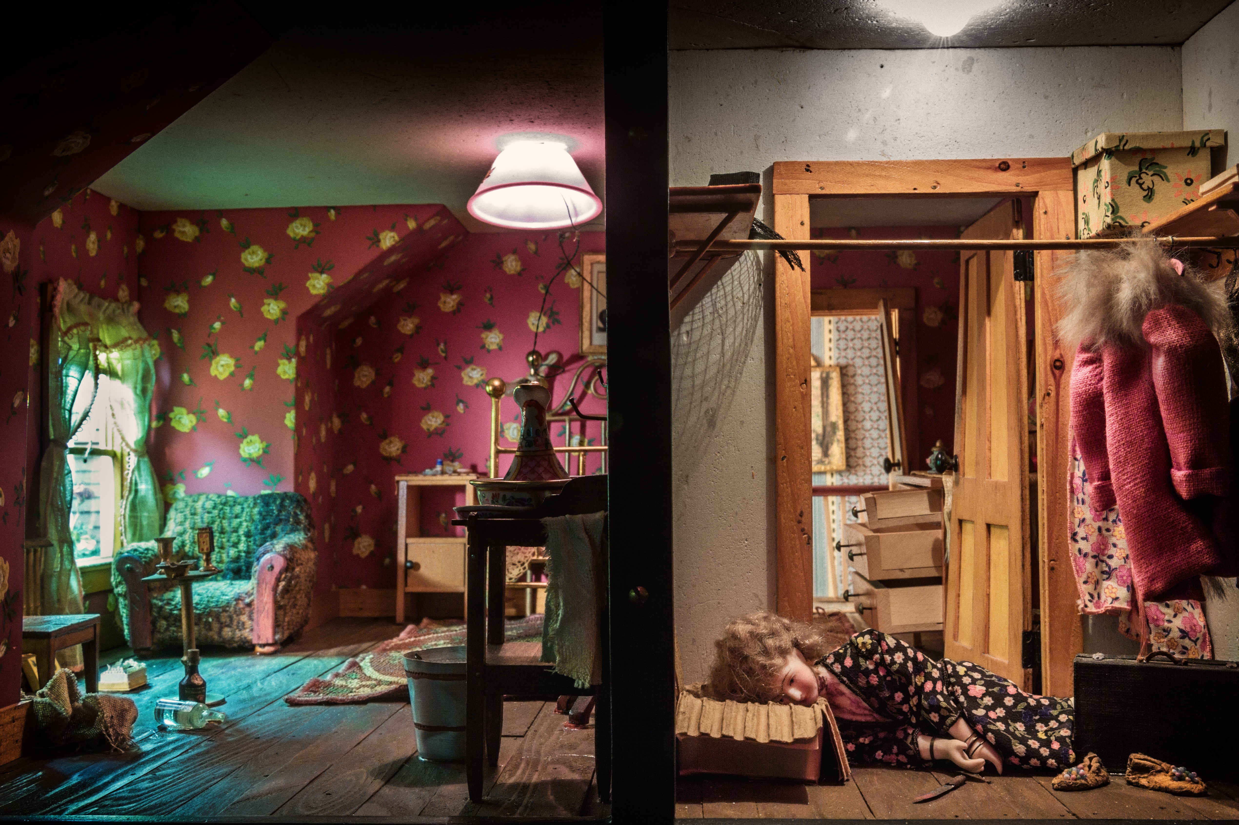 Description of events & information that accompany the Red Bedroom diorama: Reported to Nutshell Laboratories, Thursday, June 29, 1944. Marie Jones, a prostitute, was discovered dead by her landlady, Mrs. Shirley Flanagan. Mrs. Shirley Flanagan was questioned and gave the following statement: On the morning of Thursday, June 29, 1944, she passed the open door of Marie’s room and called out “hello”. When she did not receive a response, she looked in and found the conditions as shown in the model. Jim Green, a boyfriend and client of Marie’s, had come in with Marie the afternoon before. Mrs. Flanagan didn’t know when he had left. As soon as she found Marie’s body she telephoned the police who later found Mr. Green and brought him in for questioning. Mr. Green gave the following statement to police: He met Marie on the sidewalk the afternoon of June 28, and walked with her to a nearby package store where he bought two bottles of whiskey. They then went to her room where they sat smoking and drinking for some time. Marie, sitting in the big chair, got very drunk. Suddenly, without any warning, she grabbed his open jackknife which he had used to cut the string around the package containing the bottles. She ran into the closet and shut the door. When he opened the door he found her lying as represented by the model. He left the house immediately after that.